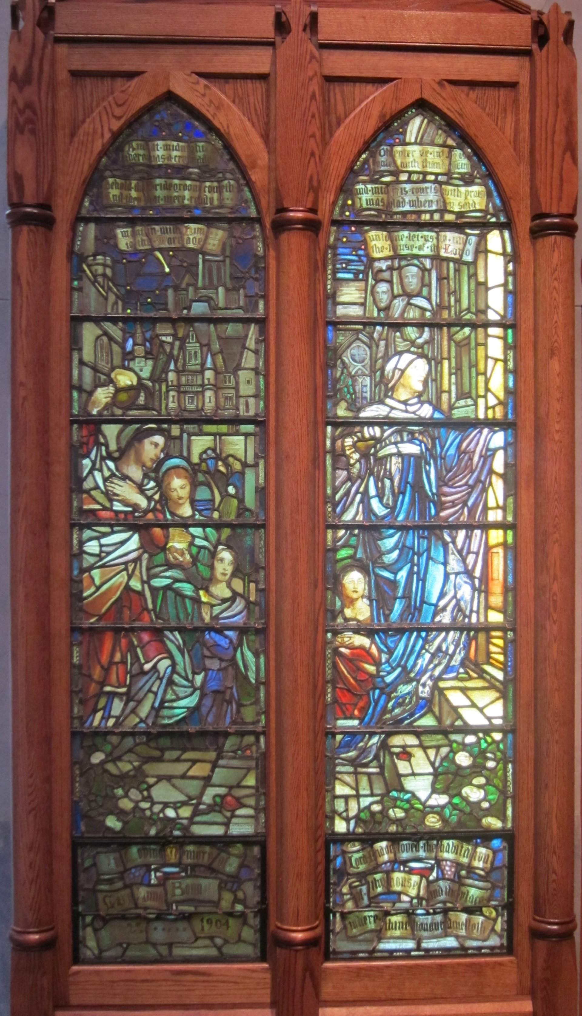 The Wise and Foolish Virgins, stained glass lancet windows by Violet Oakley, 1908-09, installed in the Pennsylvania Academy of the Fine Arts